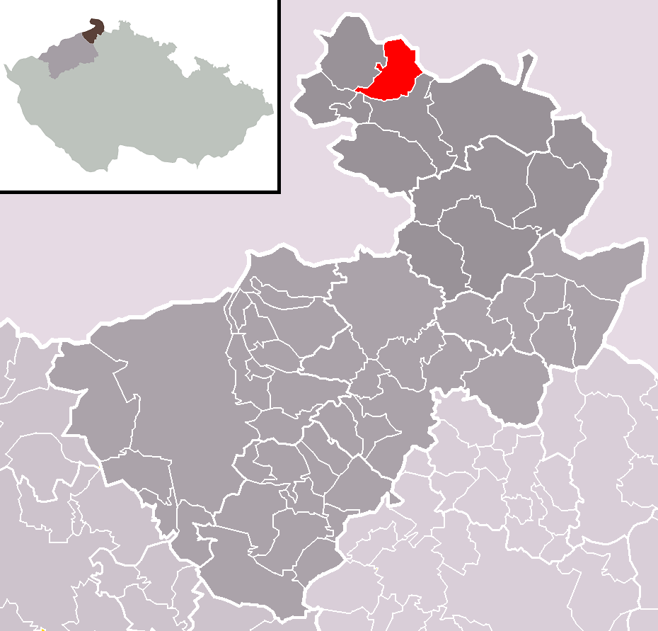 Location of Lipová municipality within Děčín District and administrative area of Rumburk as a Municipality with Extended Competence.